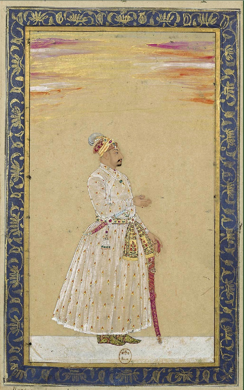 Bhawanidas (attr.). Asim Khwaja Samsam ud-Daula Khan Dauran, ca. 1725, Bibliothèque nationale de France, Paris.